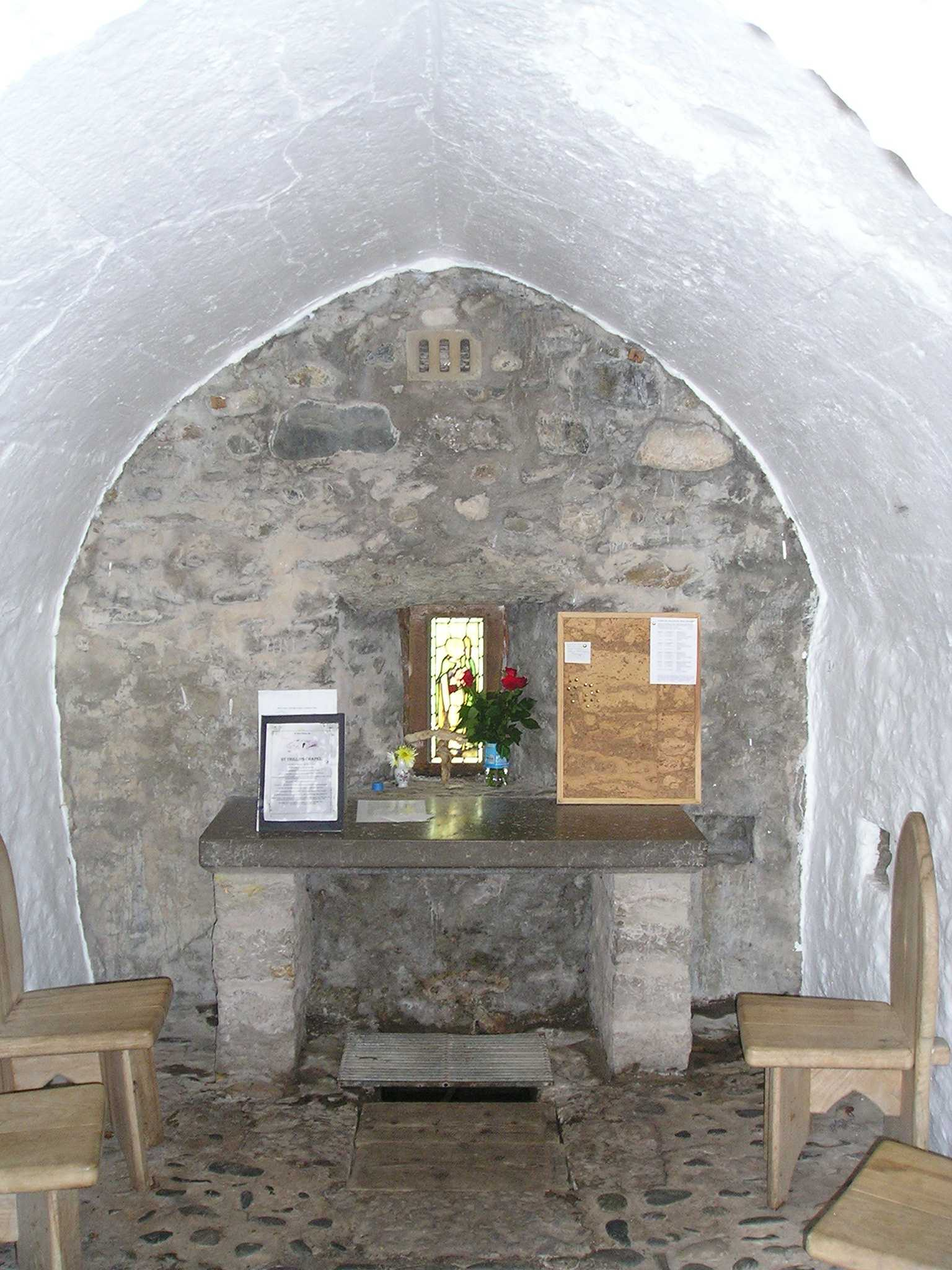 photograph taken by me, Noel Walley